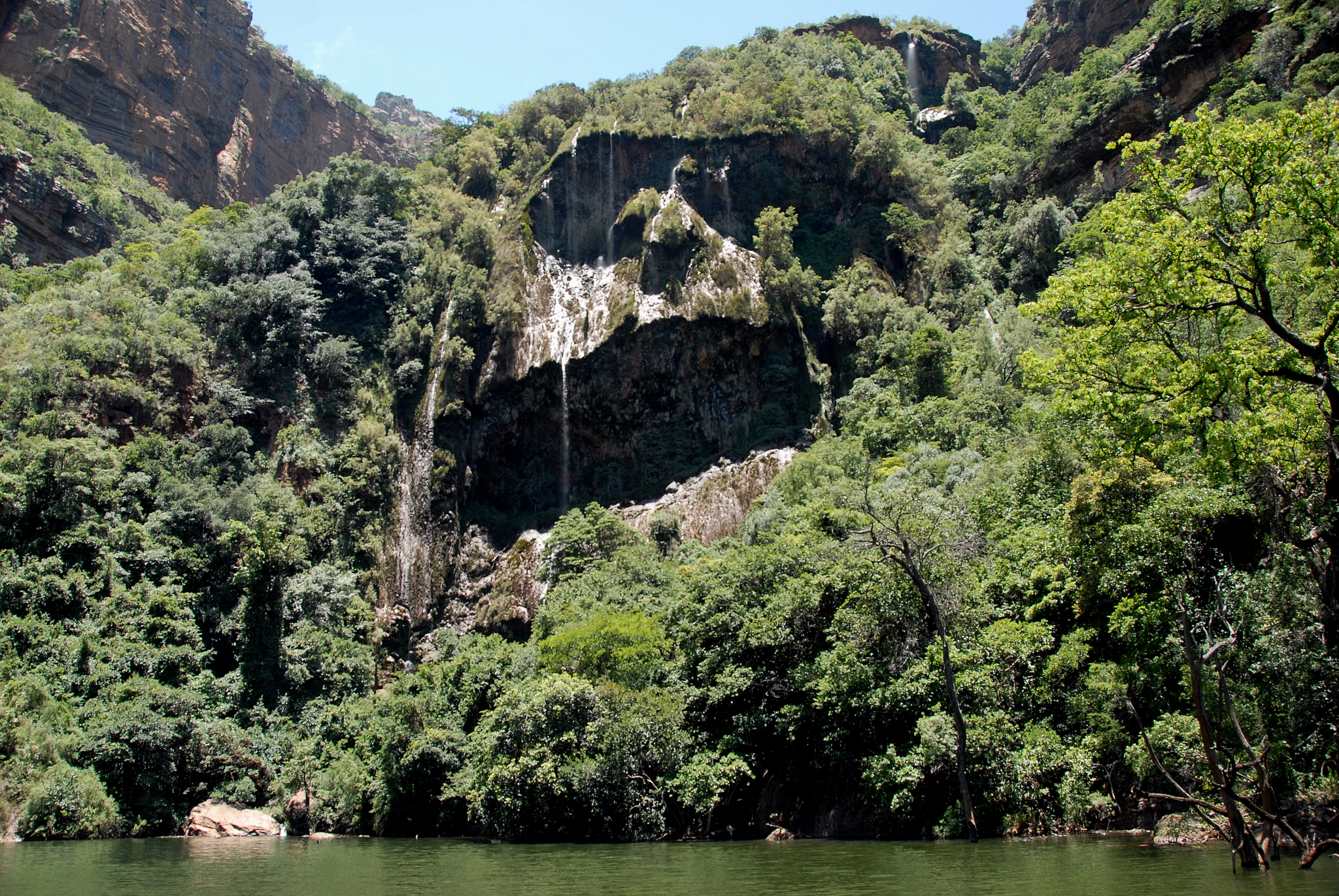 The "Weeping Face of Nature" located in Blyde River Canyon, Mpumalanga Province, South Africa.